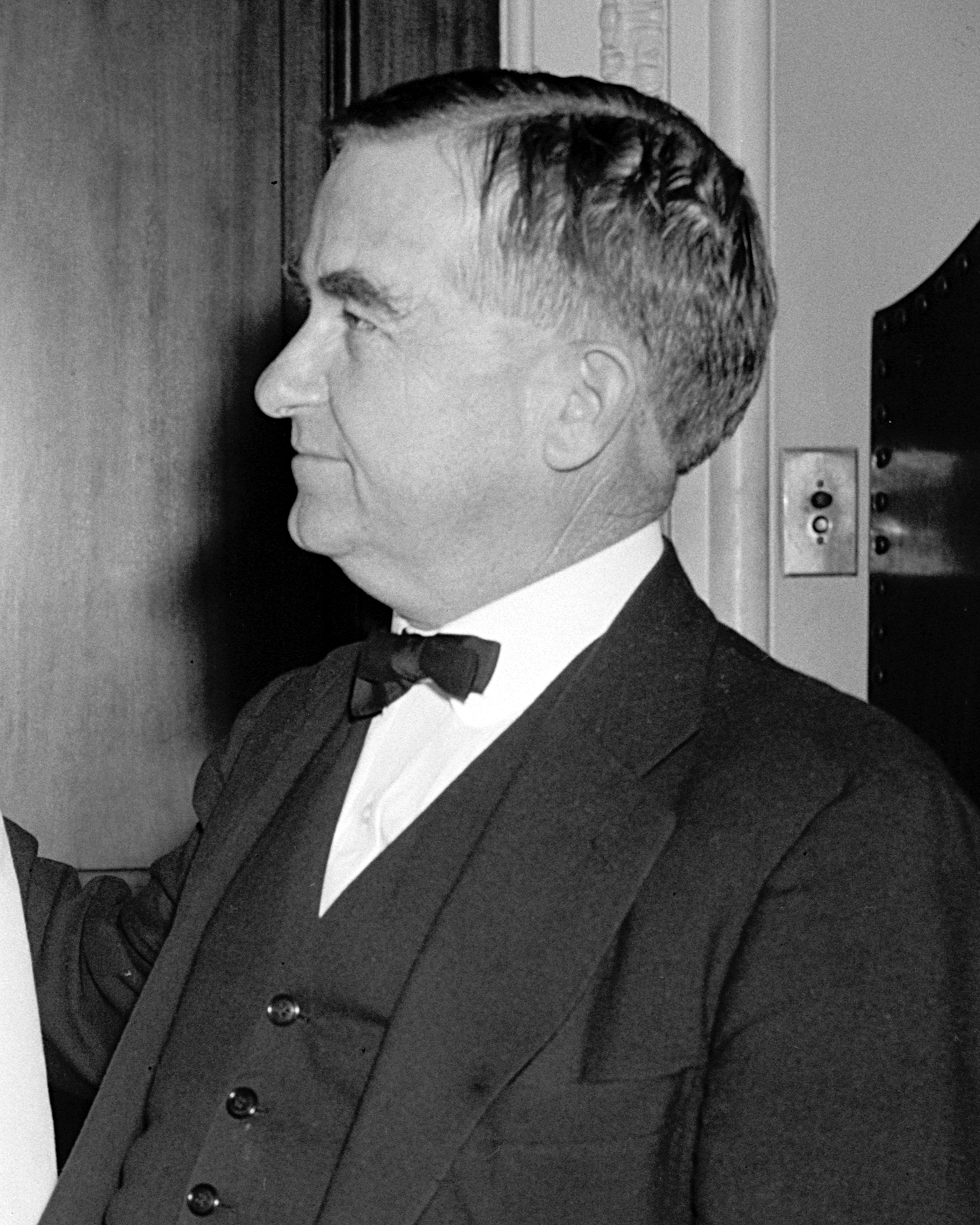 Nat Patton, US Representative from Texas